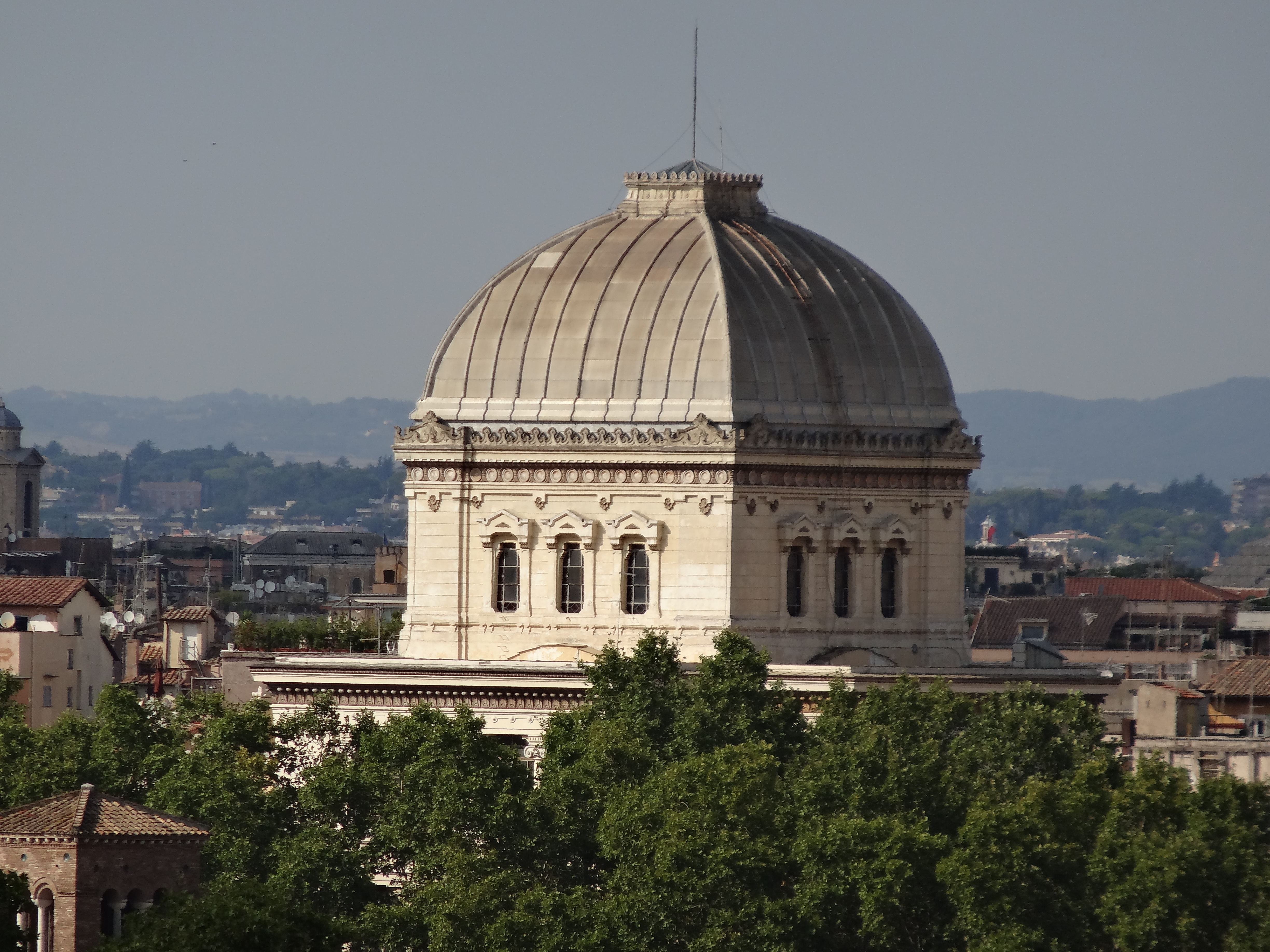 Rome synagogue dome view from the hill Aventine